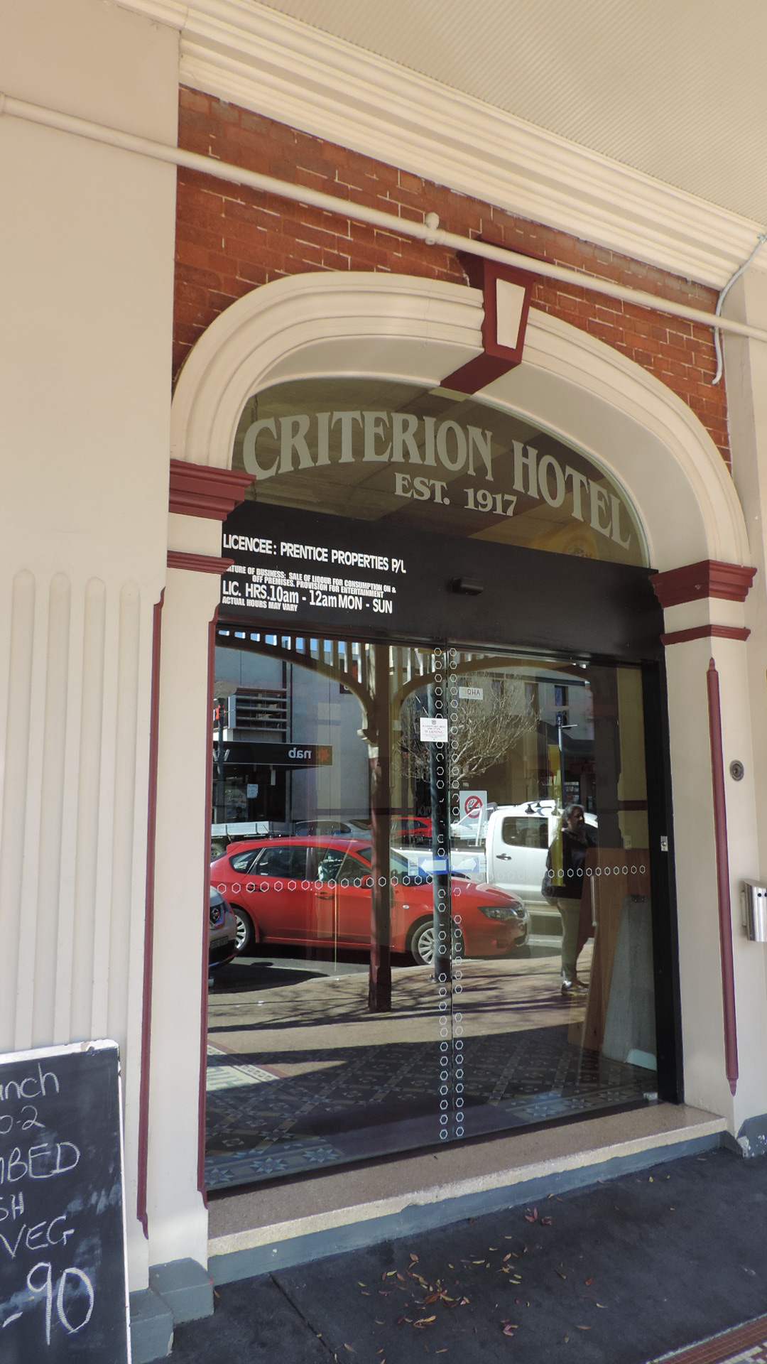 Ground floor exterior, Criterion Hotel, Palmerin Street, Warwick, 2015